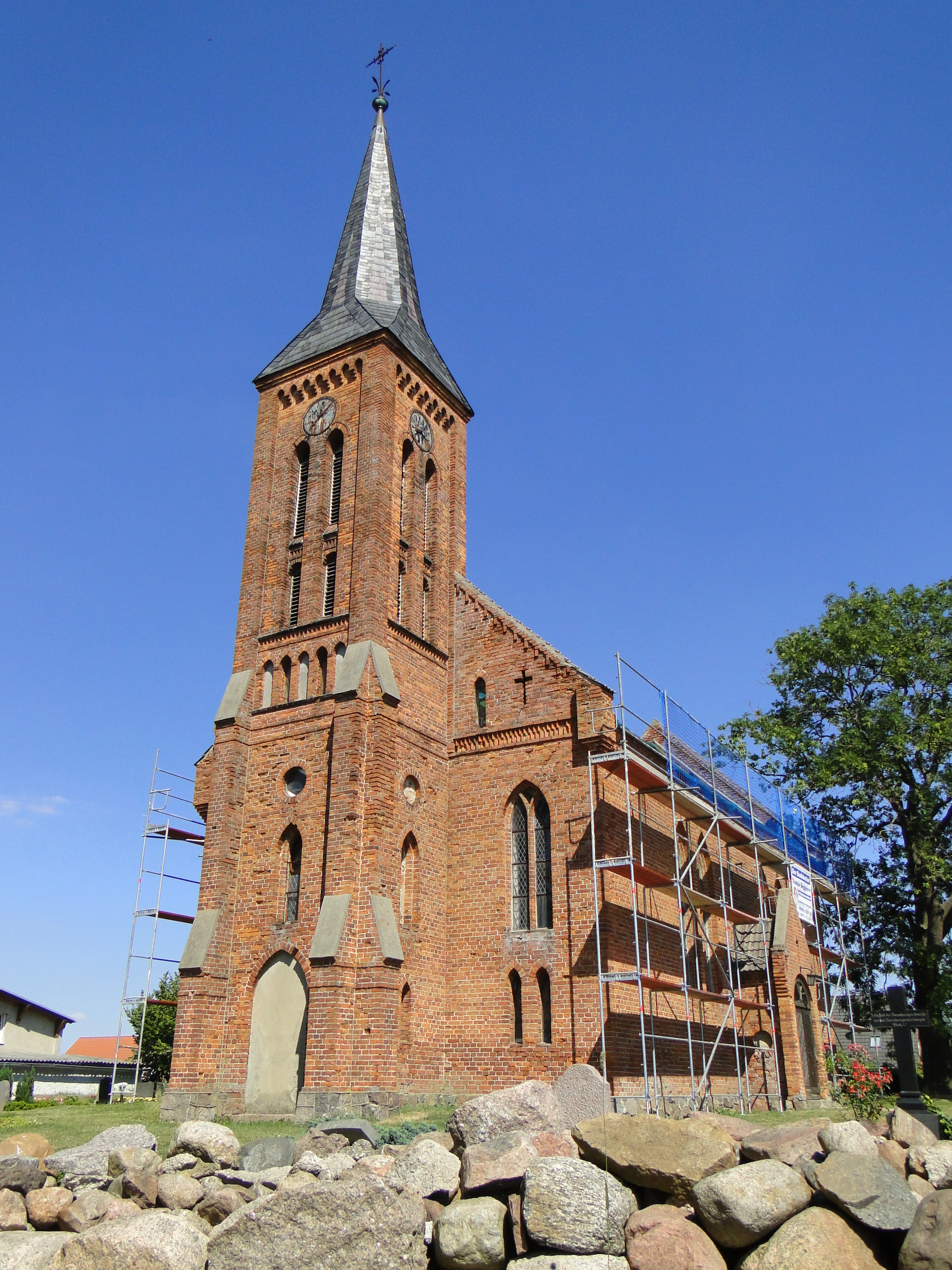 Church in Rosenow, district Demmin, Mecklenburg-Vorpommern, Germany